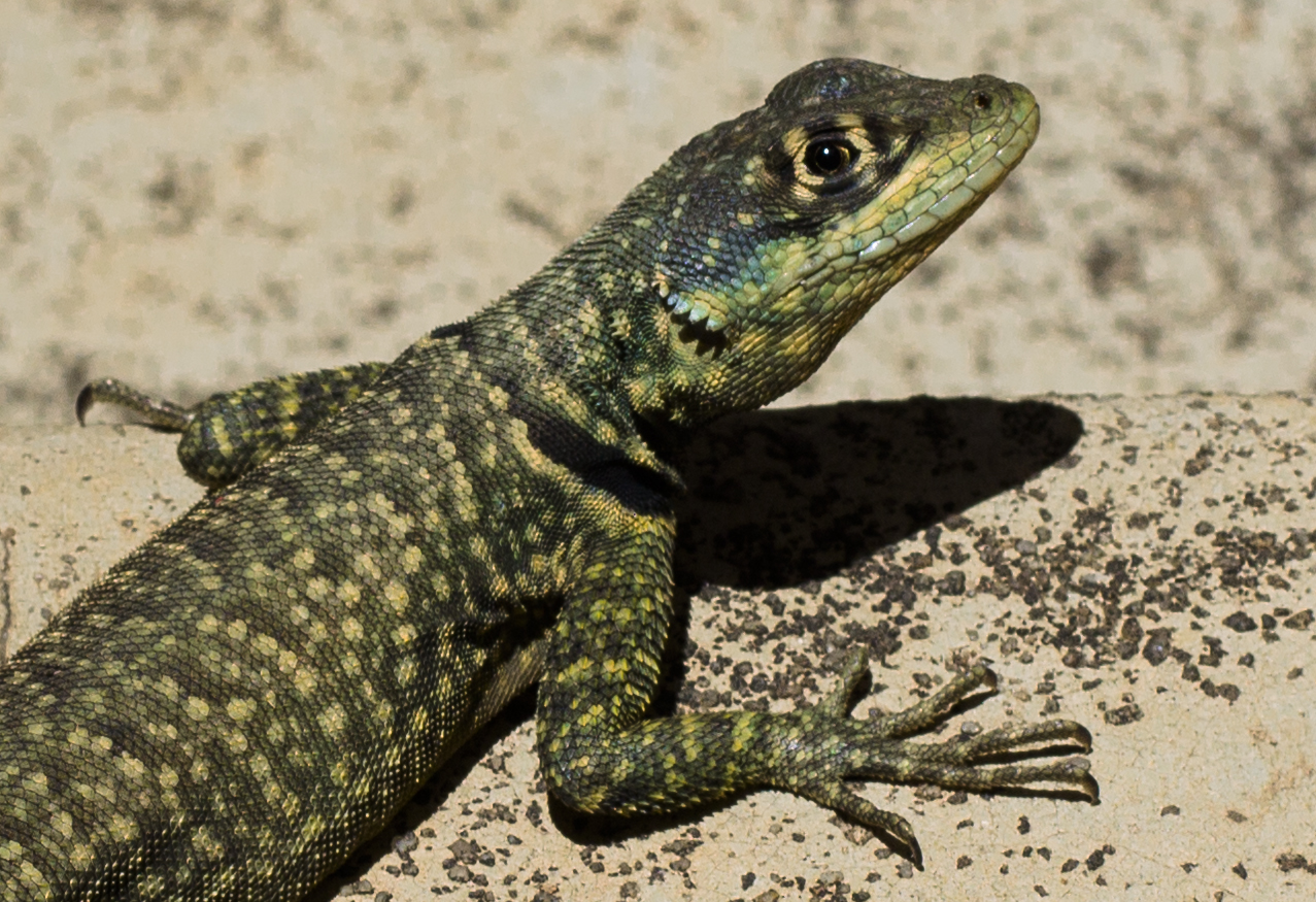 A kind of lizard common in whole South America.